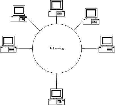 Token Ring This diagram image could be recreated using vector graphics as an SVG file. This has several advantages; see Commons:Media for cleanup for more information. If an SVG form of this image is available, please upload it and afterwards replace this template with vector version available|new image name . It is recommended to name the SVG file "Tokenring.svg" - then the template Vector version available (or Vva) does not need the new image name parameter.